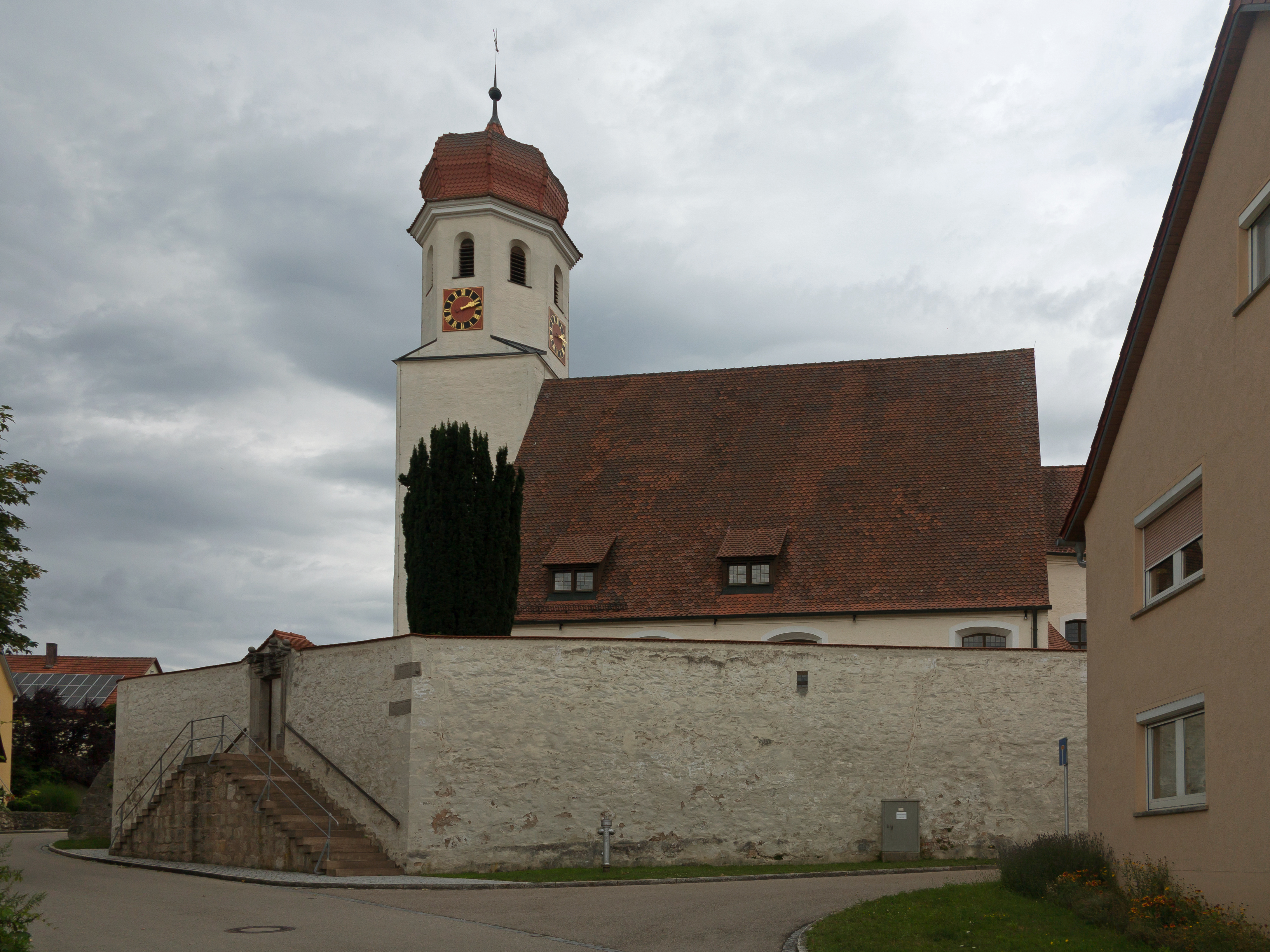 Halsbach, church: katholische Pfarrkirche Sankt Petrus und PaulusThis is a photograph of an architectural monument.